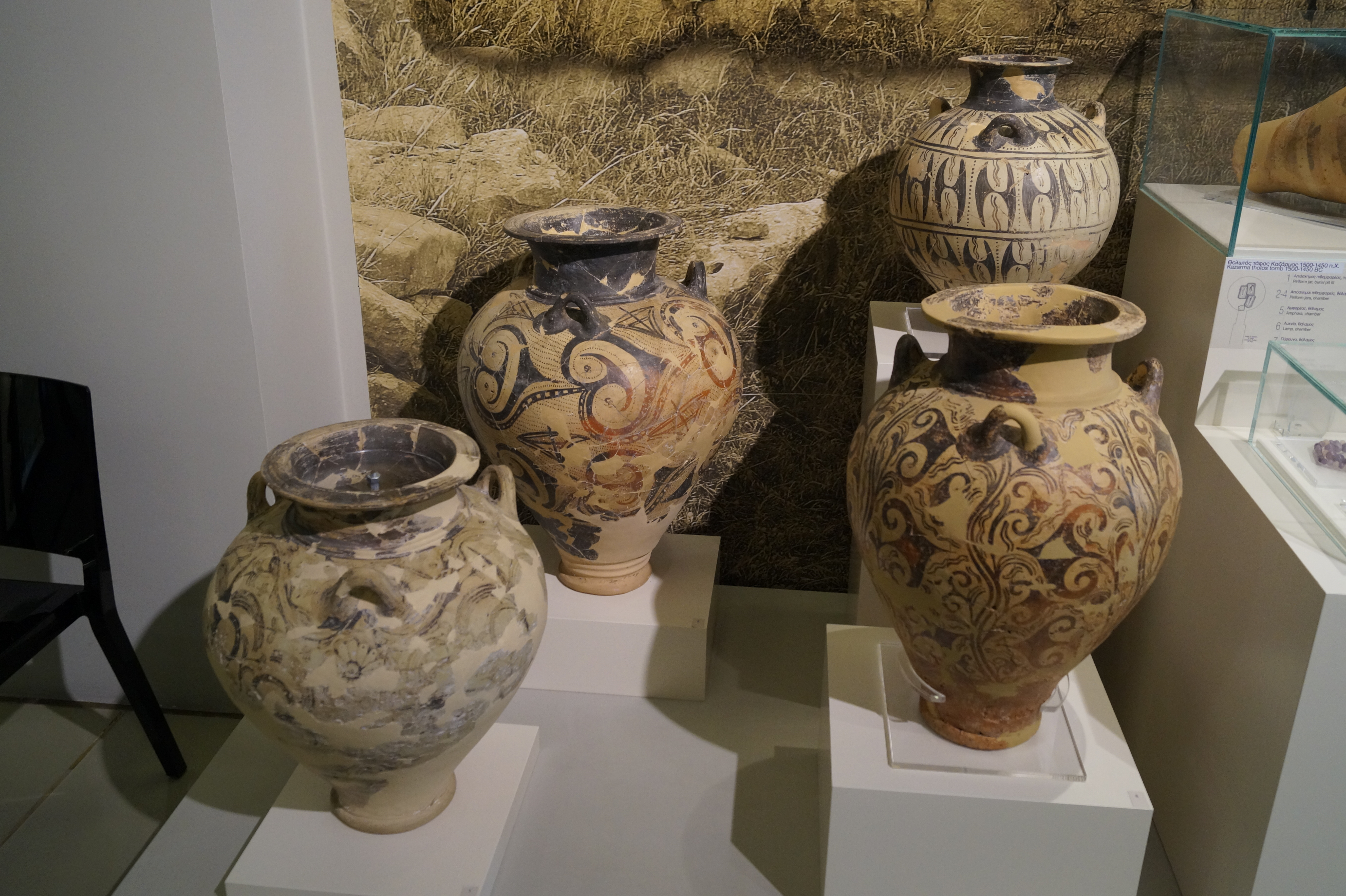 Archaeological Museum of Nafplio: 3 piriform jars from chamber and one from pit III of Kazarma Tholos Tomb. (1500-1450 BC)